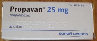 A packet of Propavan (branded propiomazine)